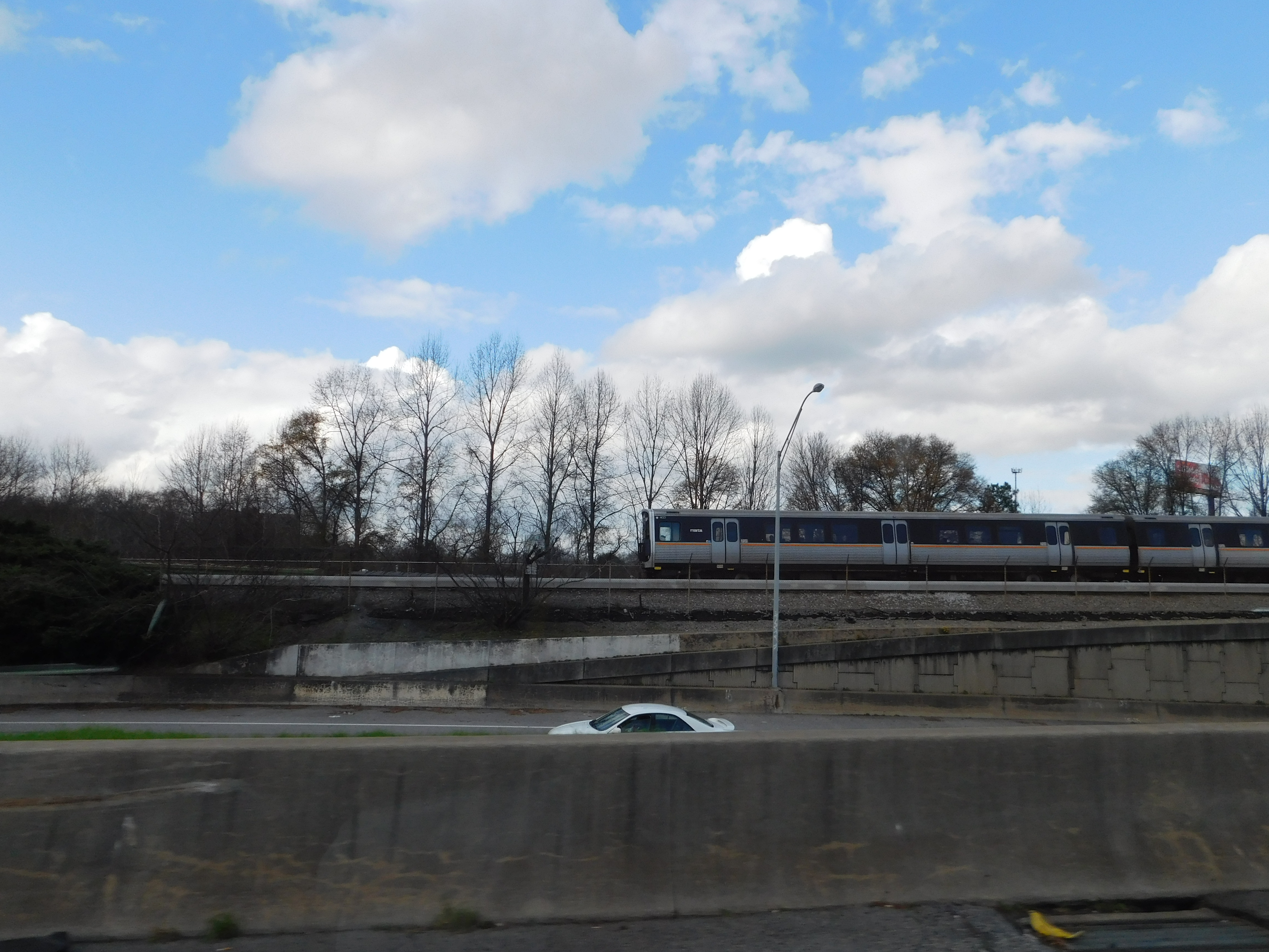 MARTA CQ312 Gold train approaching Arts Center Station.